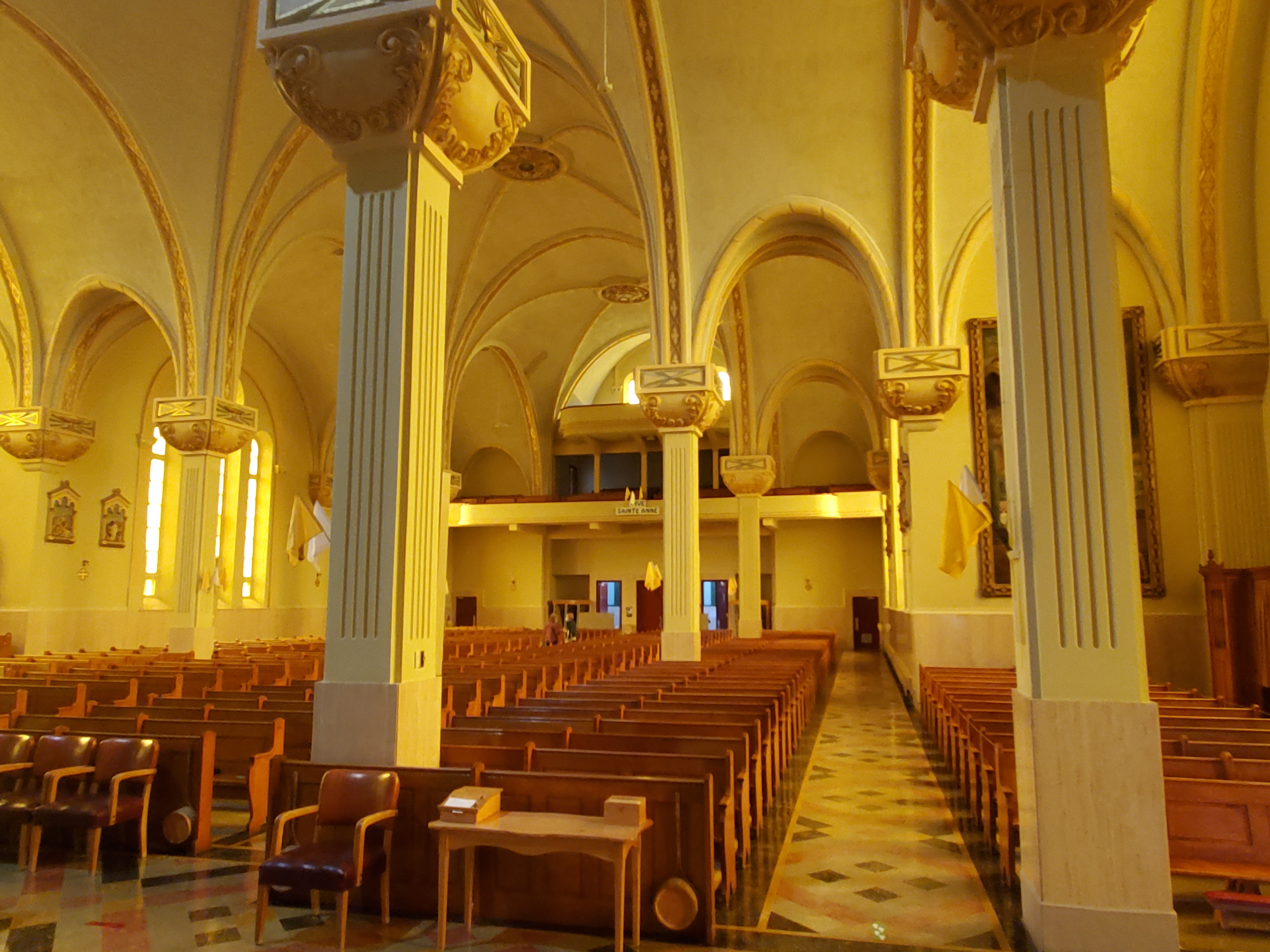 Interior of Sainte-Anne-des-Monts Church in Quebec